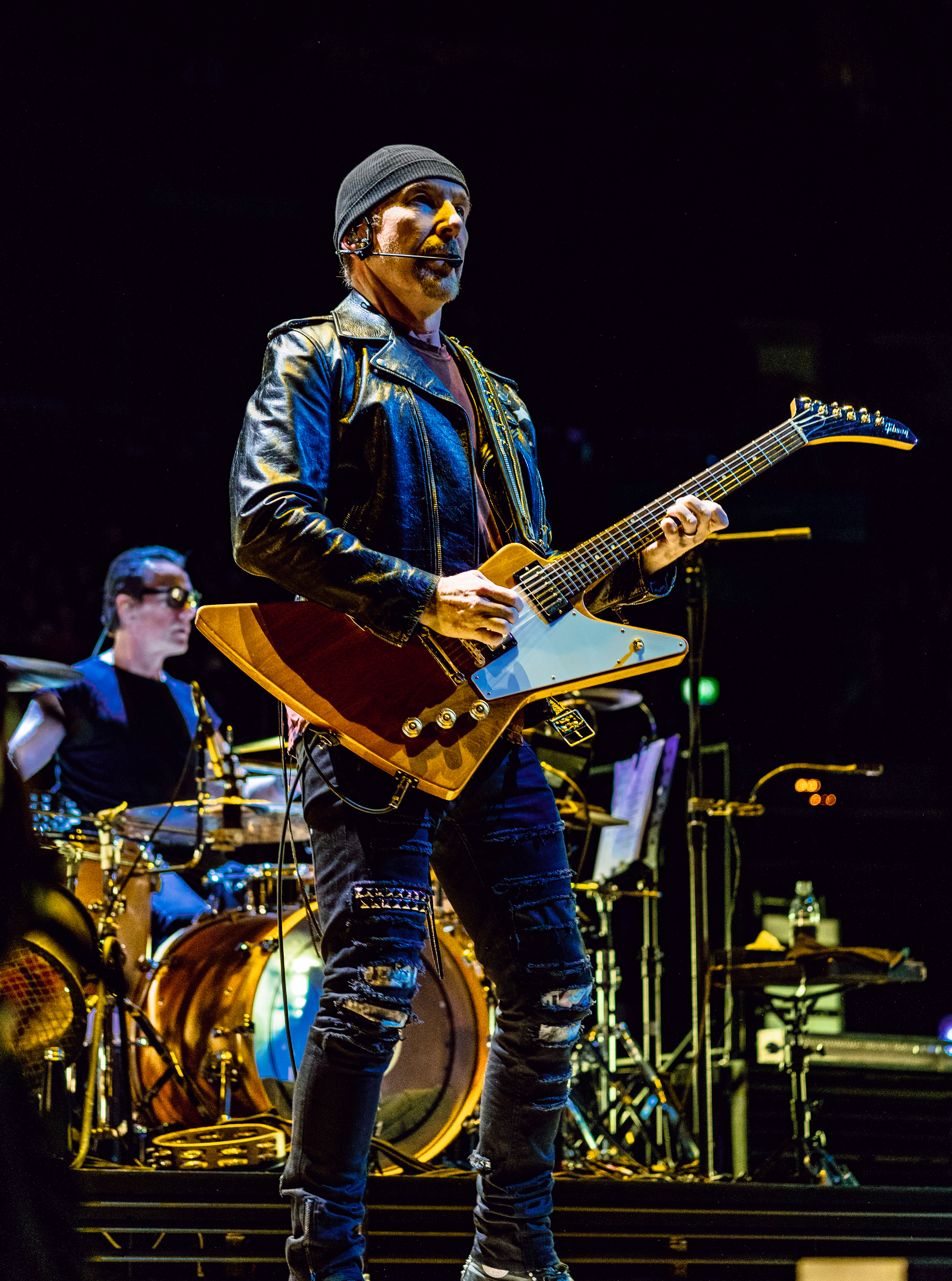 U2 guitarist The Edge performing at Barclaycard Arena in Hamburg, Germany on October 3, 2018 during the band's Experience + Innocence Tour